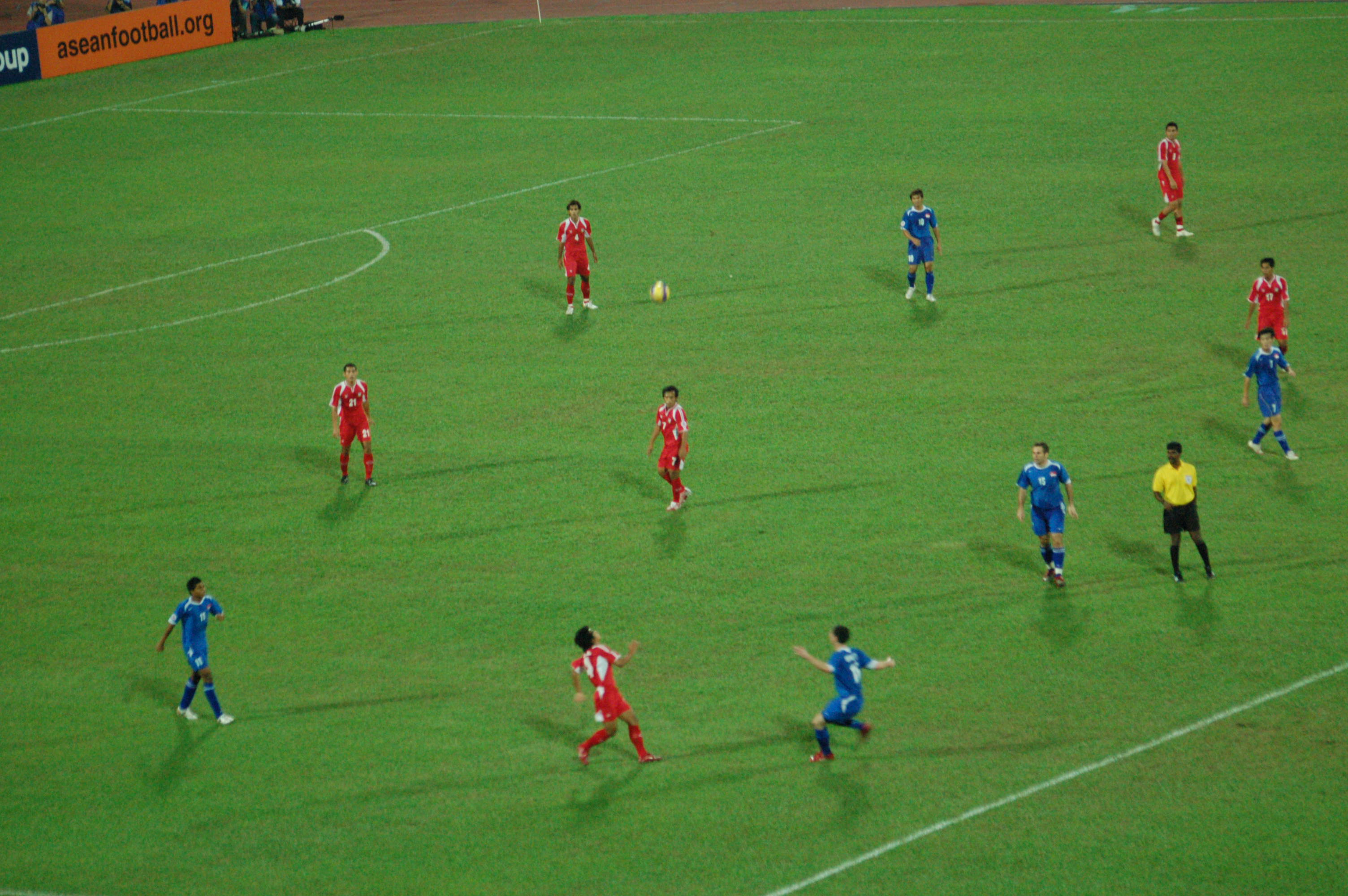 Two footballers, one from Singapore (in blue jersey) and the other from Thailand (red), aiming for a ball in the air during the first leg of the 2007 AFF Football Championship finals at the National Stadium in Singapore. Singapore eventually won the match 2–1, and the championship.